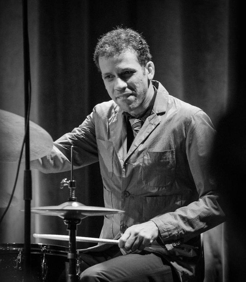 Tom Harrell Trip at Victoria Teater. The concert was part of Oslo Jazzfestival and took place on 15. August 2017 in Oslo. Lineup: Tom Harrell (trumpet), Mark Turner (tenor saxophone), Ugonna Okegwo (double bass) and Adam Cruz (drums).